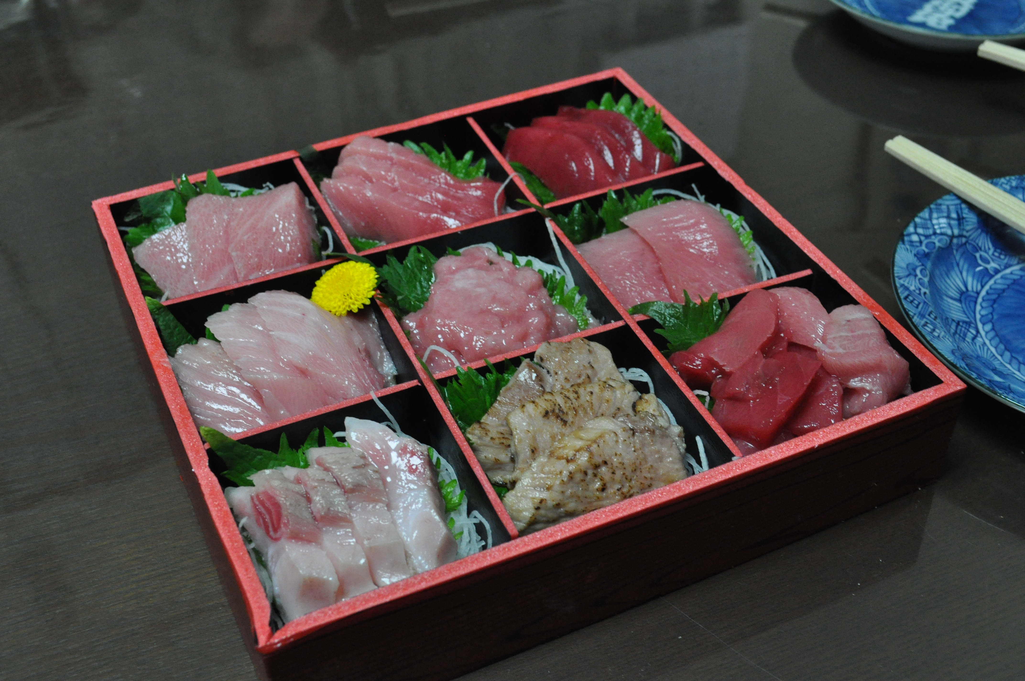 Box displaying various cuts of tuna prepared as sashimi, including chuu-toro (medium fatty belly), o-toro (fatty belly), akimi (lean red met) and lightly seared meat. This box was available from a Mitsukoshi department store in Tokyo.